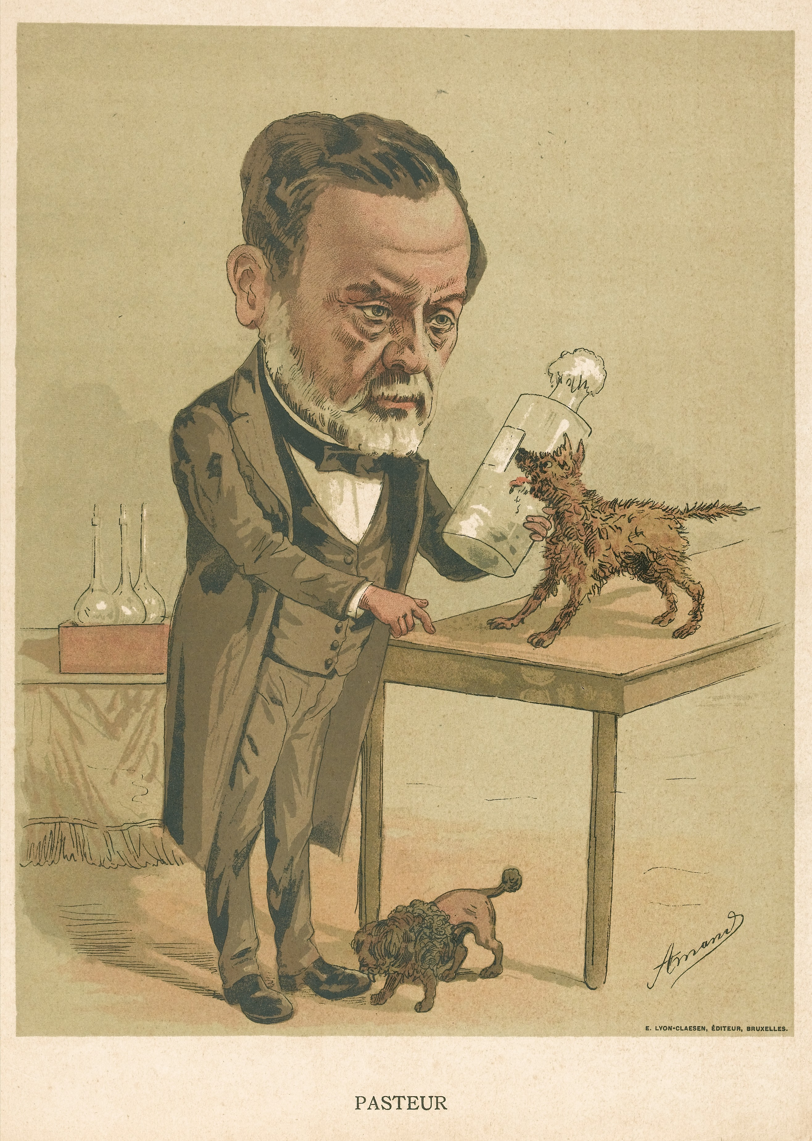 Louis Pasteur. Colour lithograph by Amand. Standing, holding glass flask, giving command to a rabid dog on a table; a healthy dog licking his shoes. Chemical vessels on table behind. Iconographic Collections